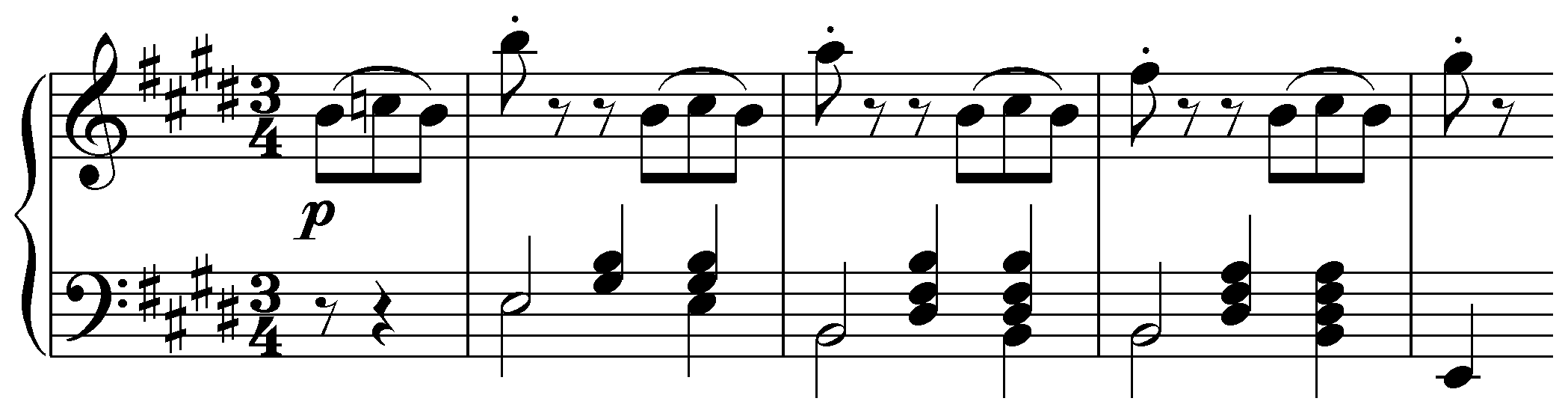 Opening of melody No 2. of Johan Strauss, Sr.'s Täuberln-Walzer, Op. 1. Repeated anacrusis.